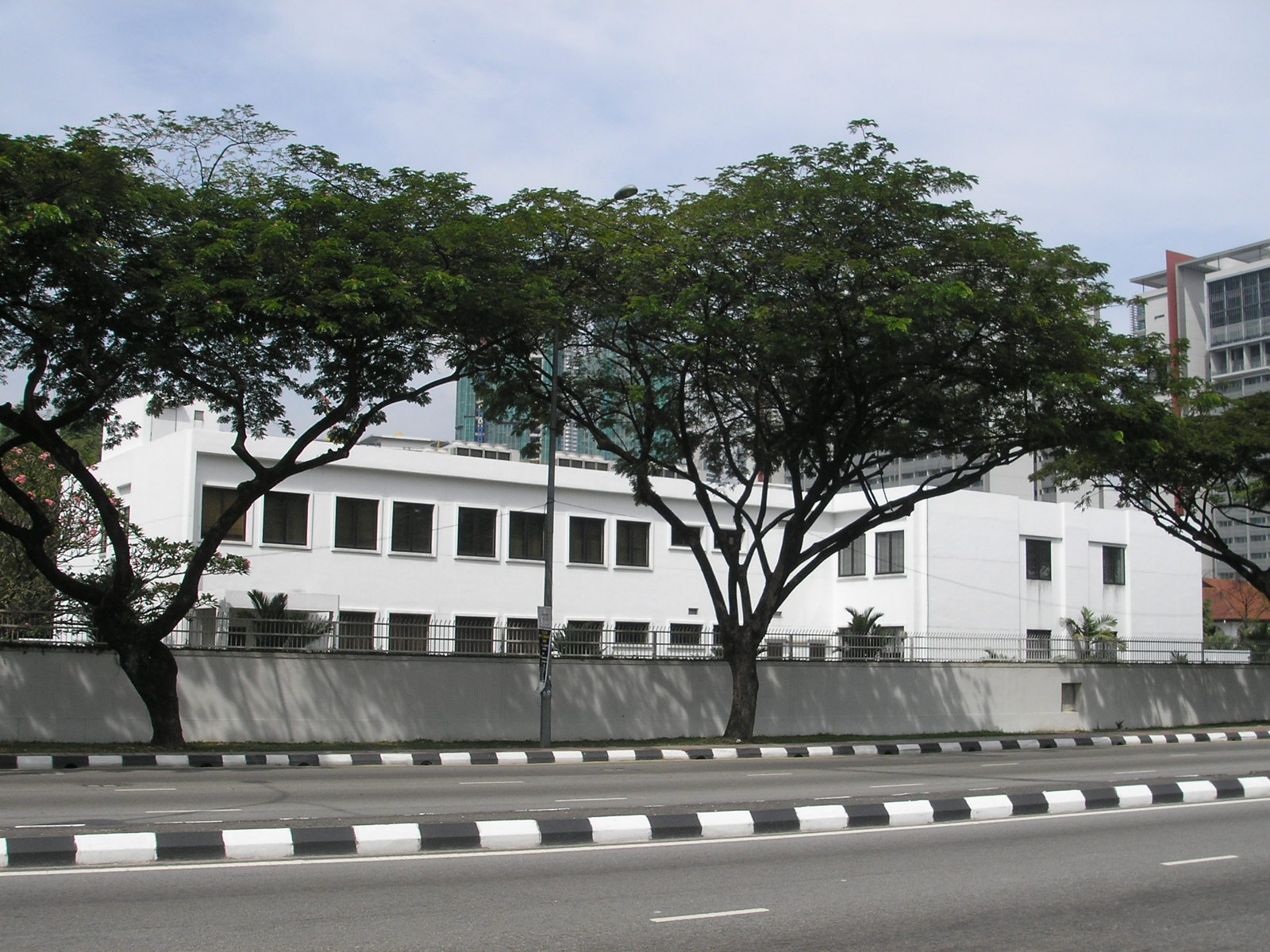 The Japanese embassy in Kuala Lumpur, at Jalan Tun Razak.